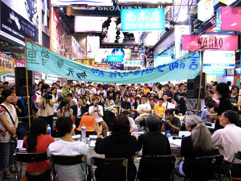 Chinese University Student Press Mong Kok Forum 12-05-2007